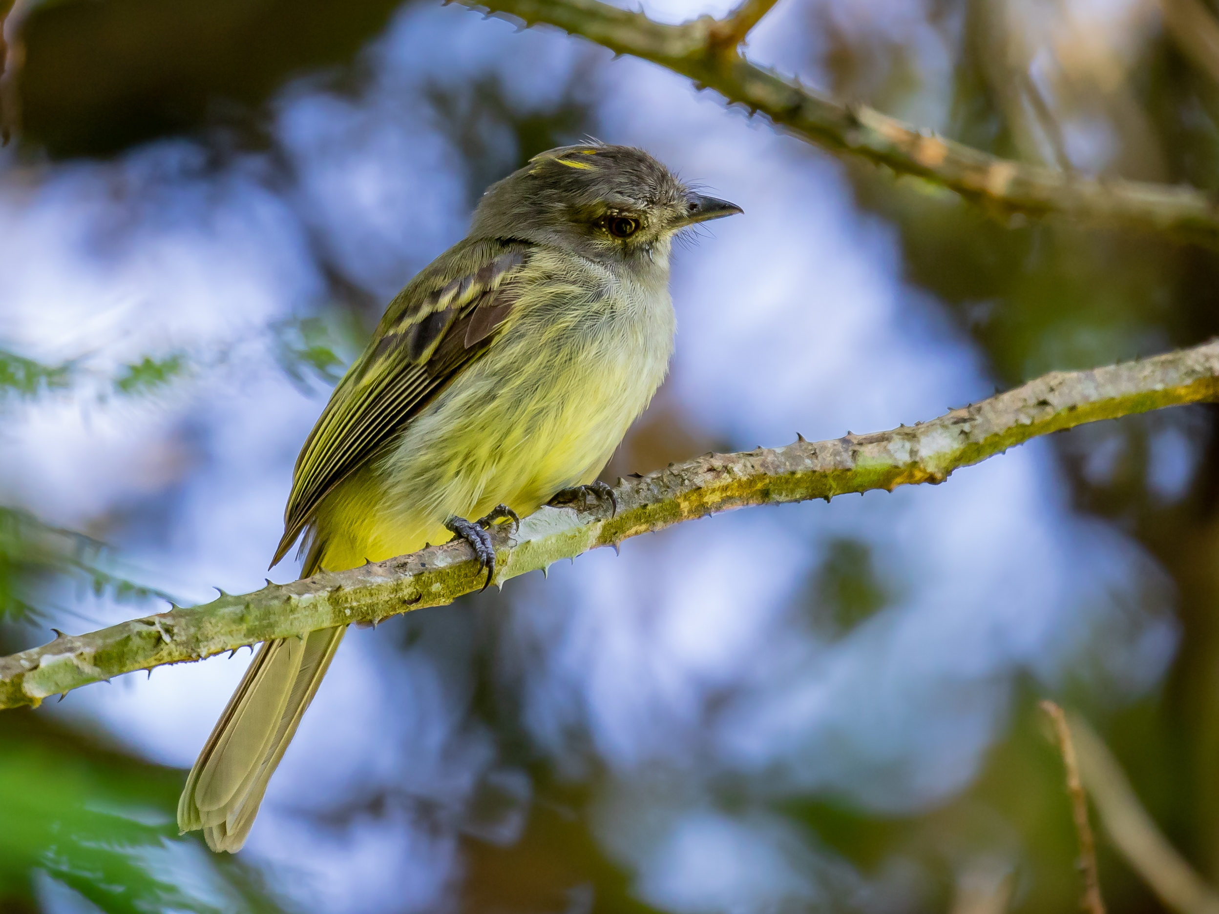 Yellow-crowned elaenia, Iranduba, Amazonas, Brazil